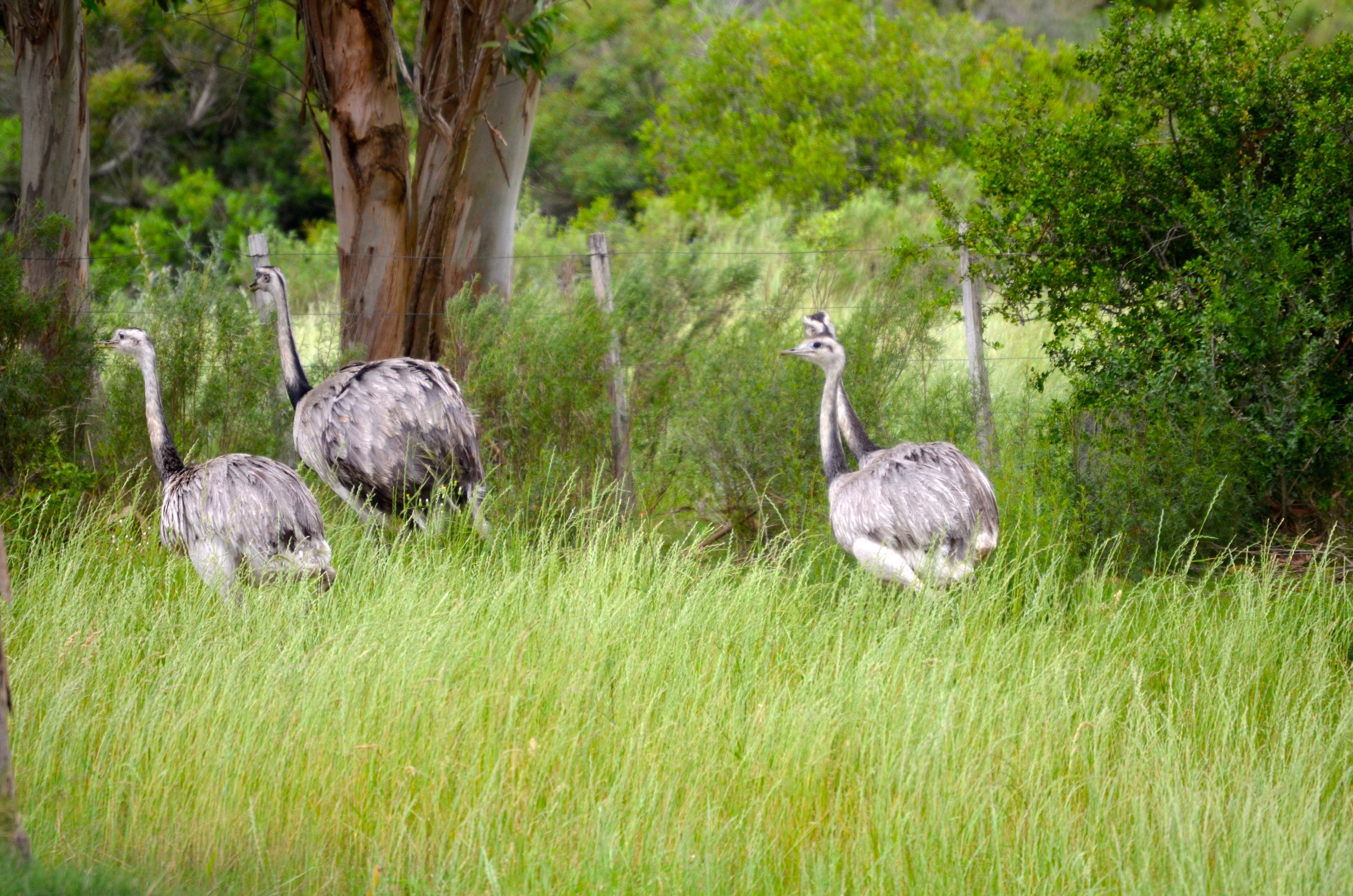 greater rheas (Rhea americana) near Laguna de Rocha